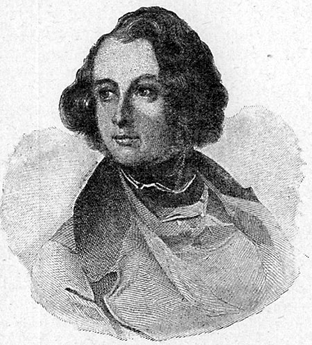 Young Charles Dickens, c. 1830s